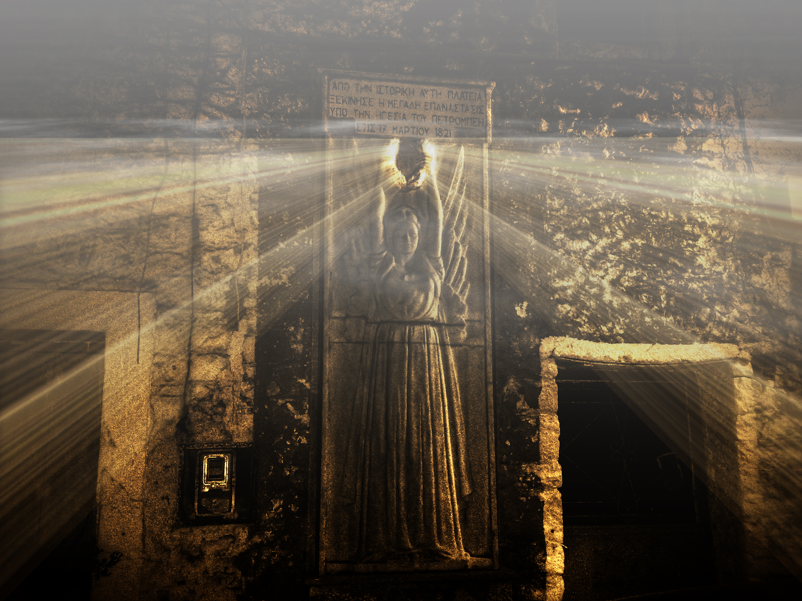 MONUMENT AT AREOPOLI